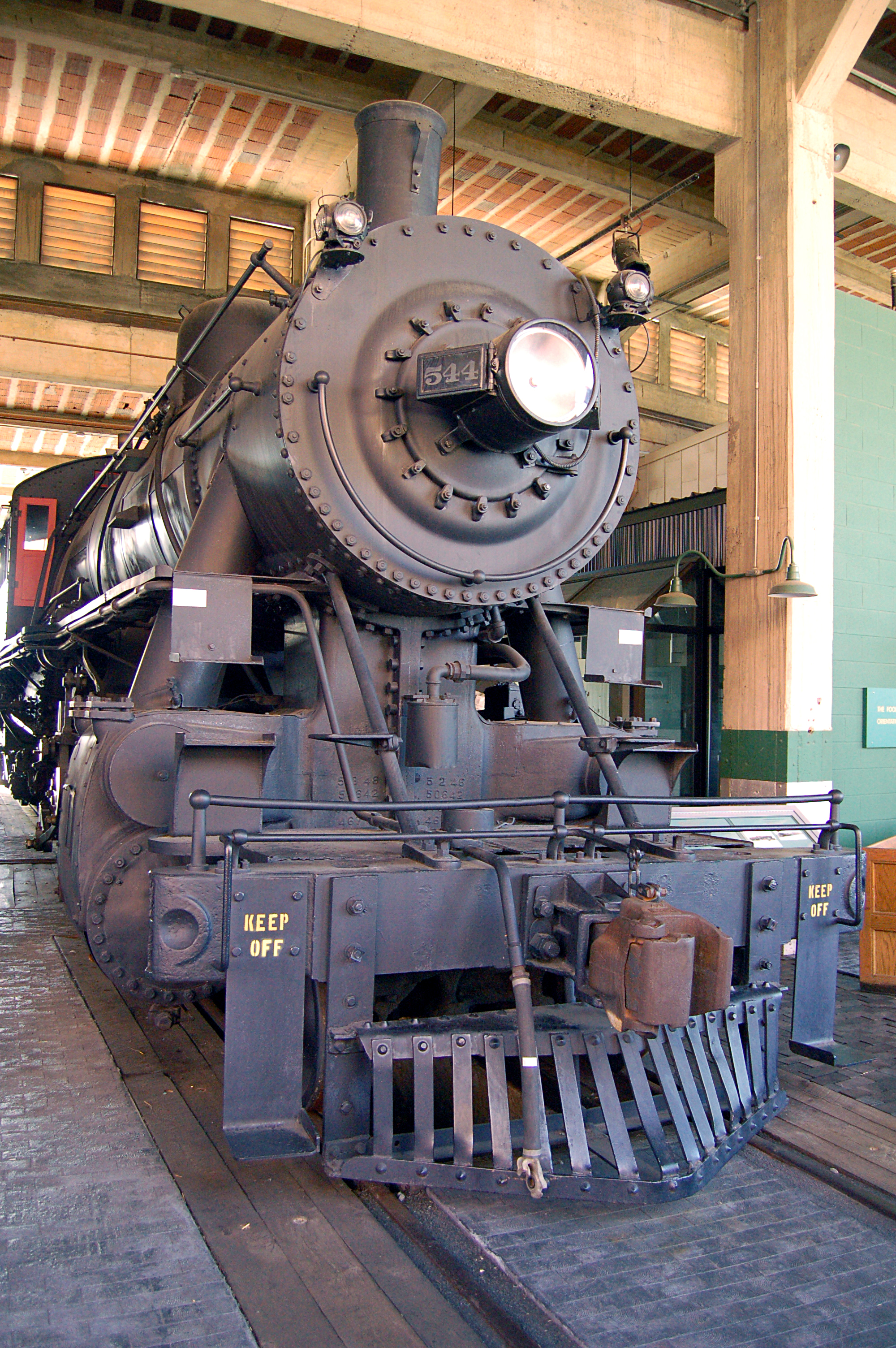 This Seaboard Air Line #544 is a 2-10-0 Decapod on display at the North Carolina Transportation Museum in Spencer, North Carolina. Built by the American Locomotive Company in March 1918, it was originally intended to ship to the Russian State Railroad but was not delivered due to the Revolution of 1917.